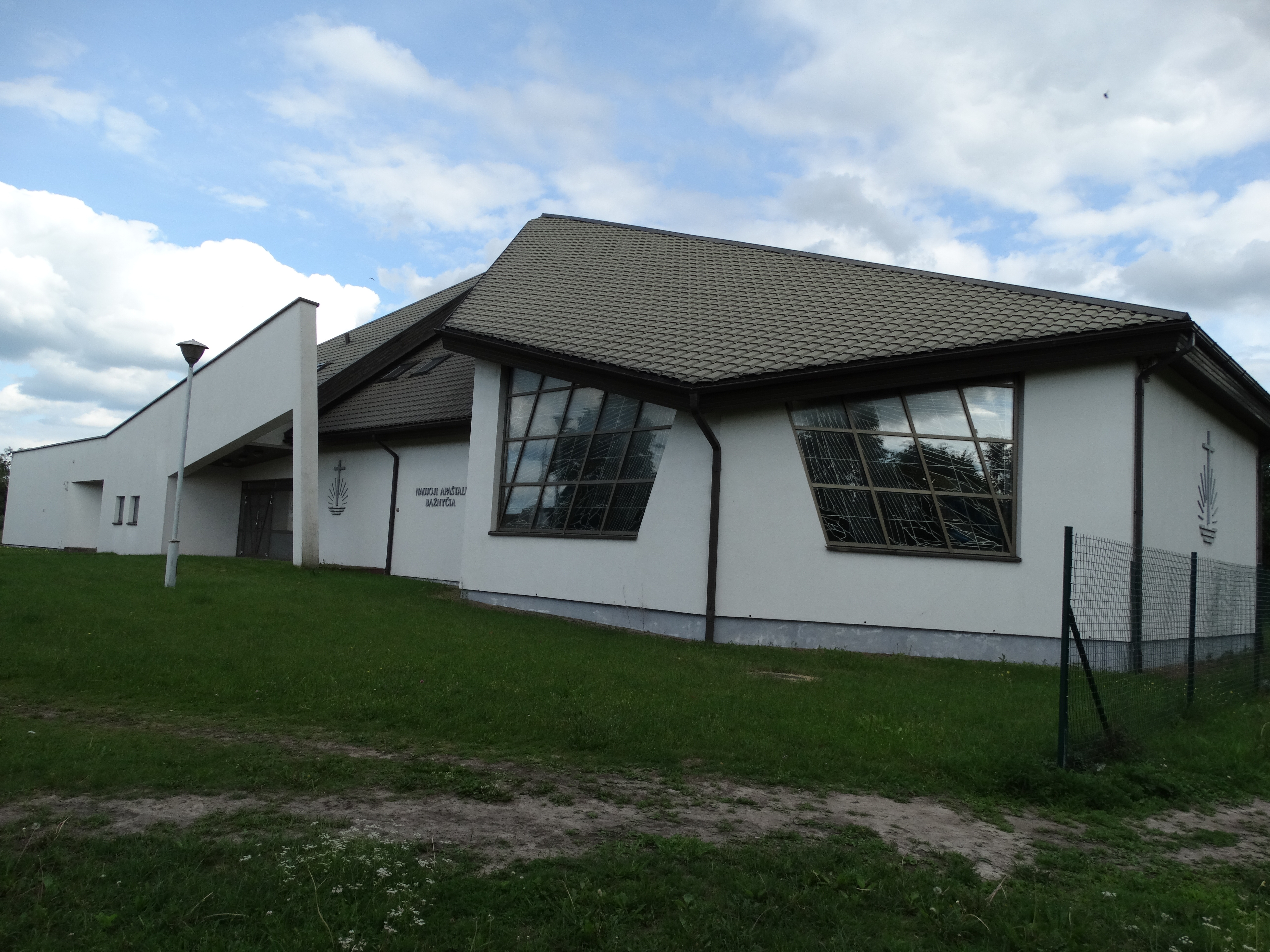 New Apostolic Church, Kaunas, Lithuania